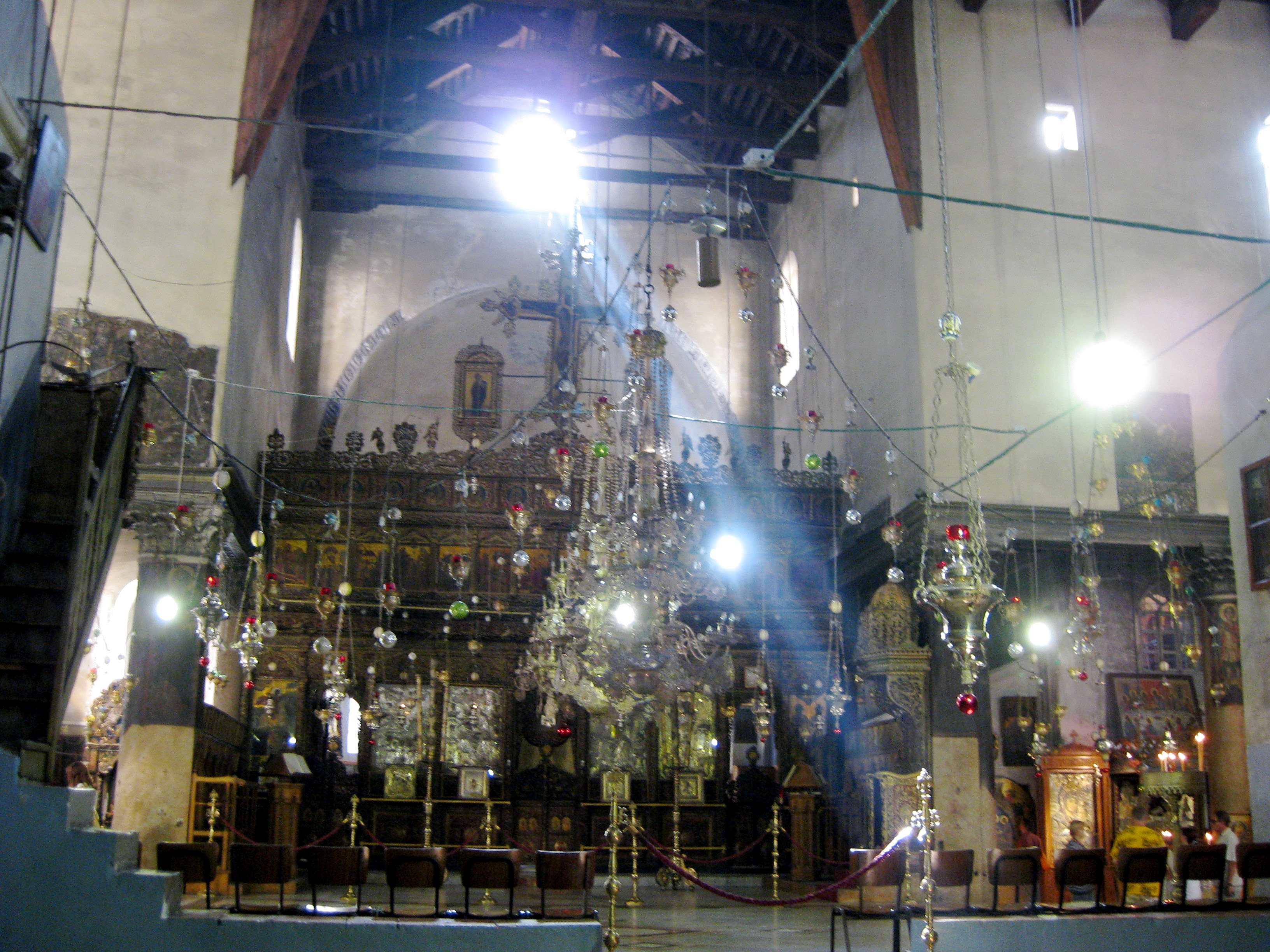 Church of the Nativity. Main Altar. Bethlehem. Holy Land.